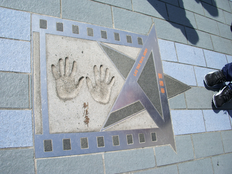 Just like the Grauman Chinese Theatre in Hollywood immortalizes handprints of movie stars on the pavement, the Avenue of the Stars does the same. The stars are honored by their native names written in Chinese characters and Roman alphabet, with a Westernized name added if they are well known by that as well. Handprints from well-known actor, and more importantly, Cantopop singer, Andy Lau (Lau Tak-wah, 劉德華). Just days before, I was driving through South Korea while listening to a radio program on the 1980s Hong Kong pop culture. One of the key memories mentioned there was listening to all the Andy Lau hits - and of girls who had crushes on Andy Lau-lookalike Chinese food deliverymen. The Koreans usually refer to Hong Kong celebrities by the Korean pronunciation of their names. Andy Lau would be known as Yu Deok-hwa. Similarly, Mandarin speakers use the Mandarin pronunciation, Liu Dehua. I am far more familiar with the Korean and Mandarin pronunciations of Lau's name, to be honest.